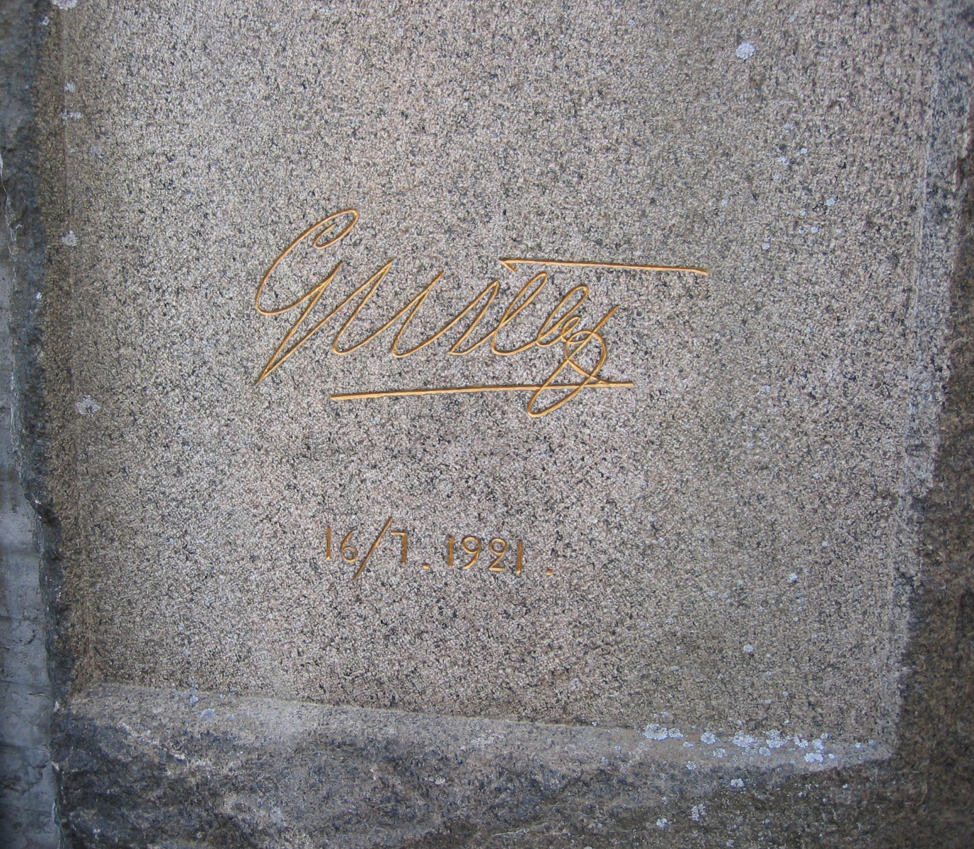 The autograph of Gustaf V at Rödberget fort, part of Boden Fortress.